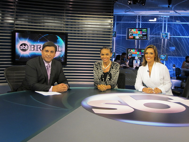 Carlos Nascimento, Marina Silva and Karyn Bravo in SBT Brasil.